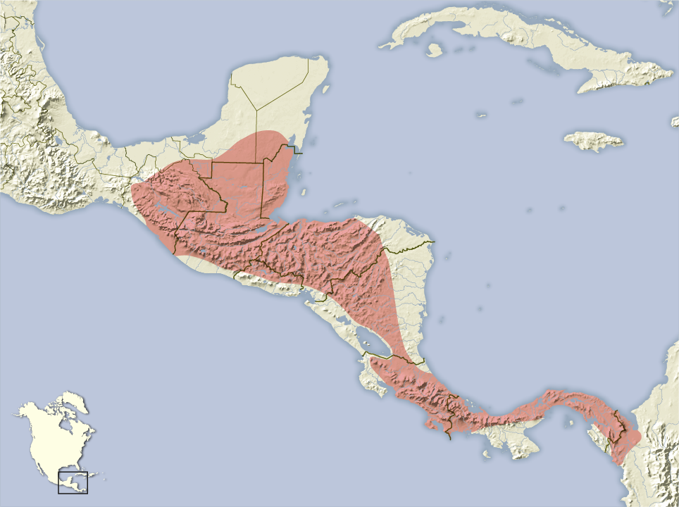 Distribution map of Desmarest's spiny pocket mouse